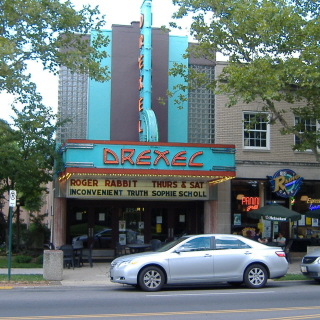 Drexel Theater Original Site 320x320